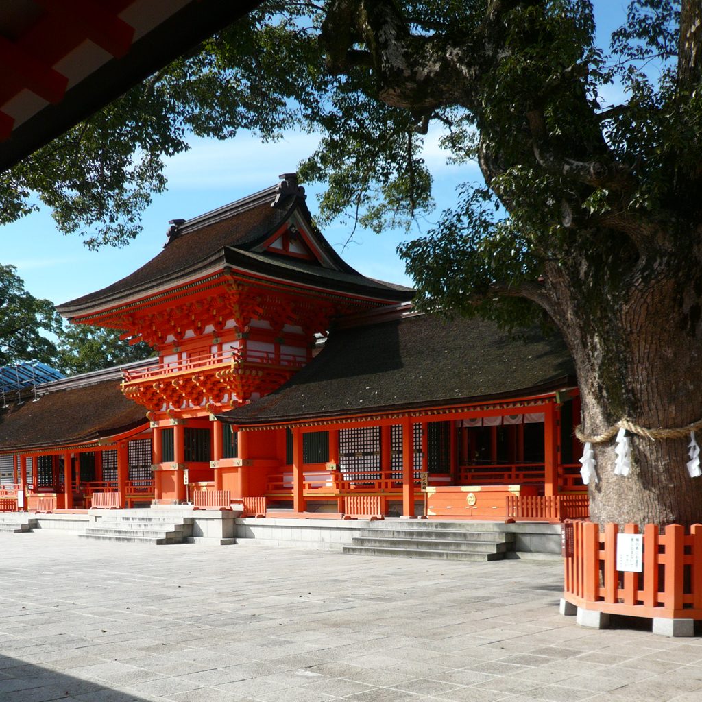 The Nanchūrōmon (南中楼門) of Usa Shrine.